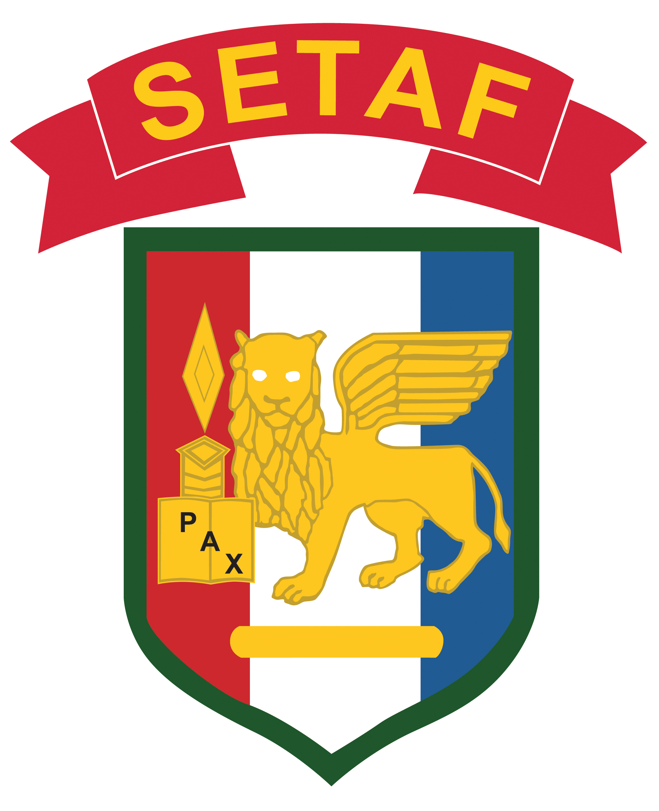 Shoulder sleeve insignia worn by U.S. Army Africa